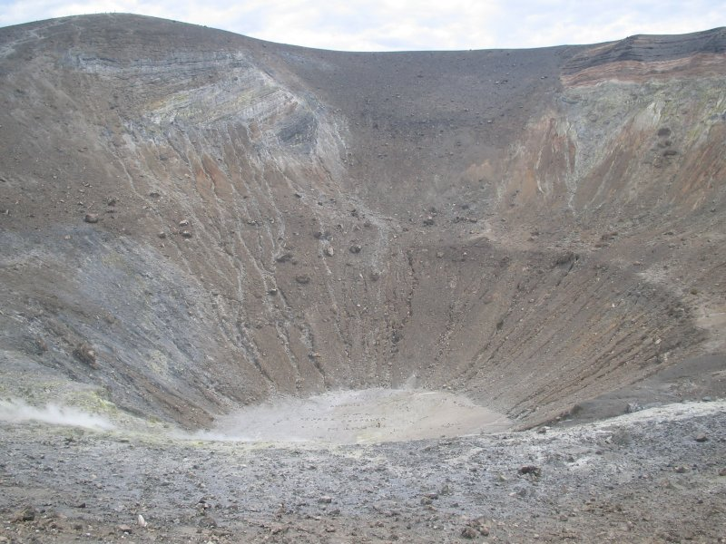 Gran Cratere Vulcano, North of Sicilia, Vulcano island, Italy. A sense of scale is provided by the tourist visible near the centre of the crater.